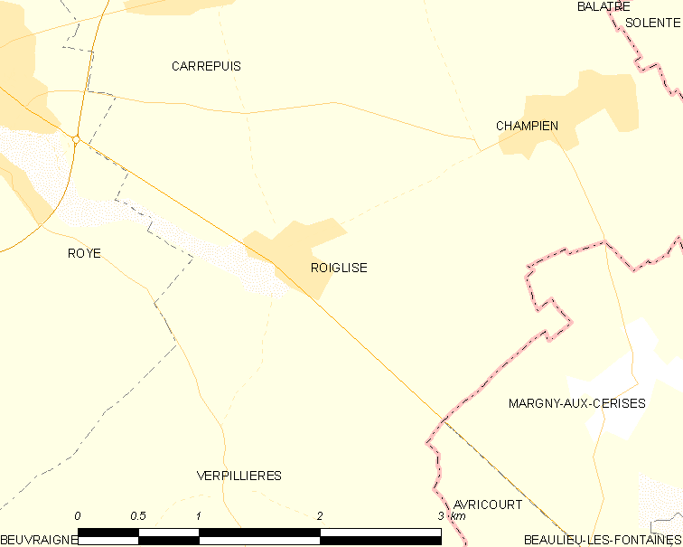 Map of French municipality Roiglise